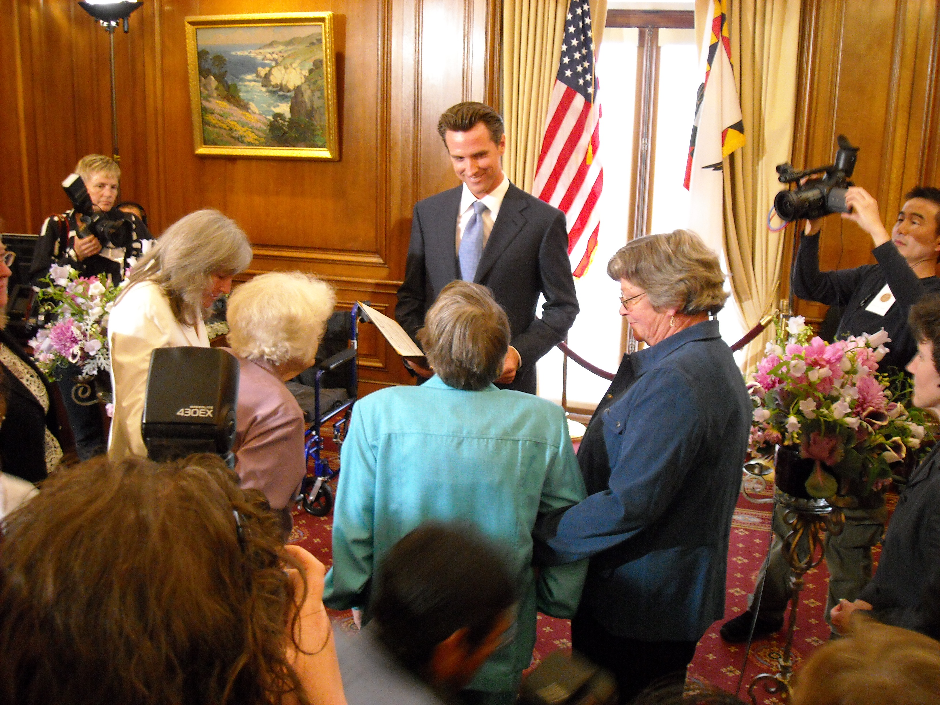 Marriage of Del Martin and Phyllis Lyon by San Francisco Mayor Gavin Newsom